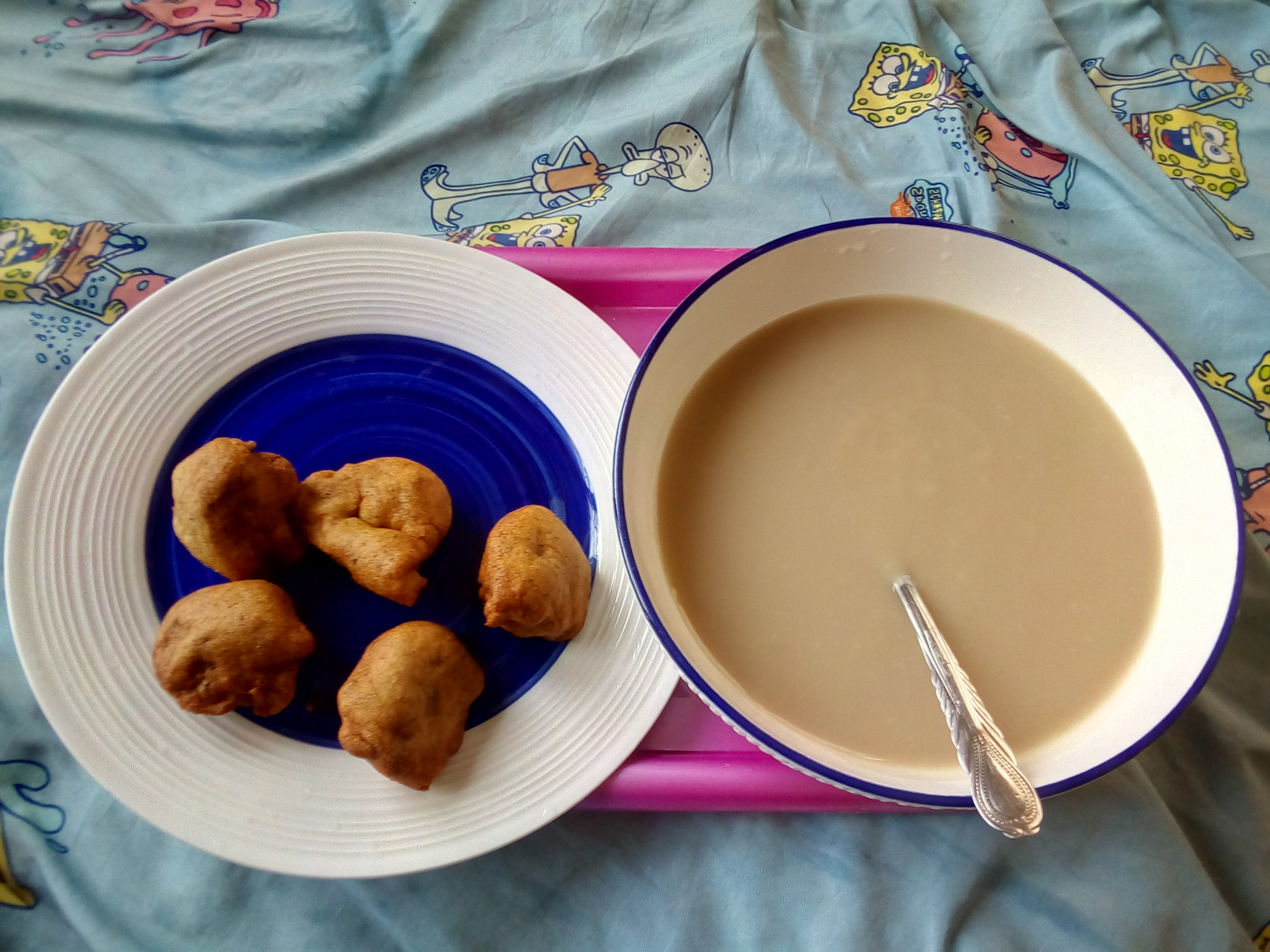 Nutritious Ghanaian Breakfast, Porridge and bean balls, also known by Ghanaians as Koko and koose This photo has been taken in the country: Ghana